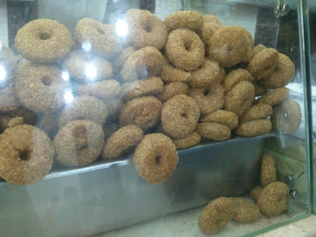 A delicious tamias on the street This is an image of food from Sudan